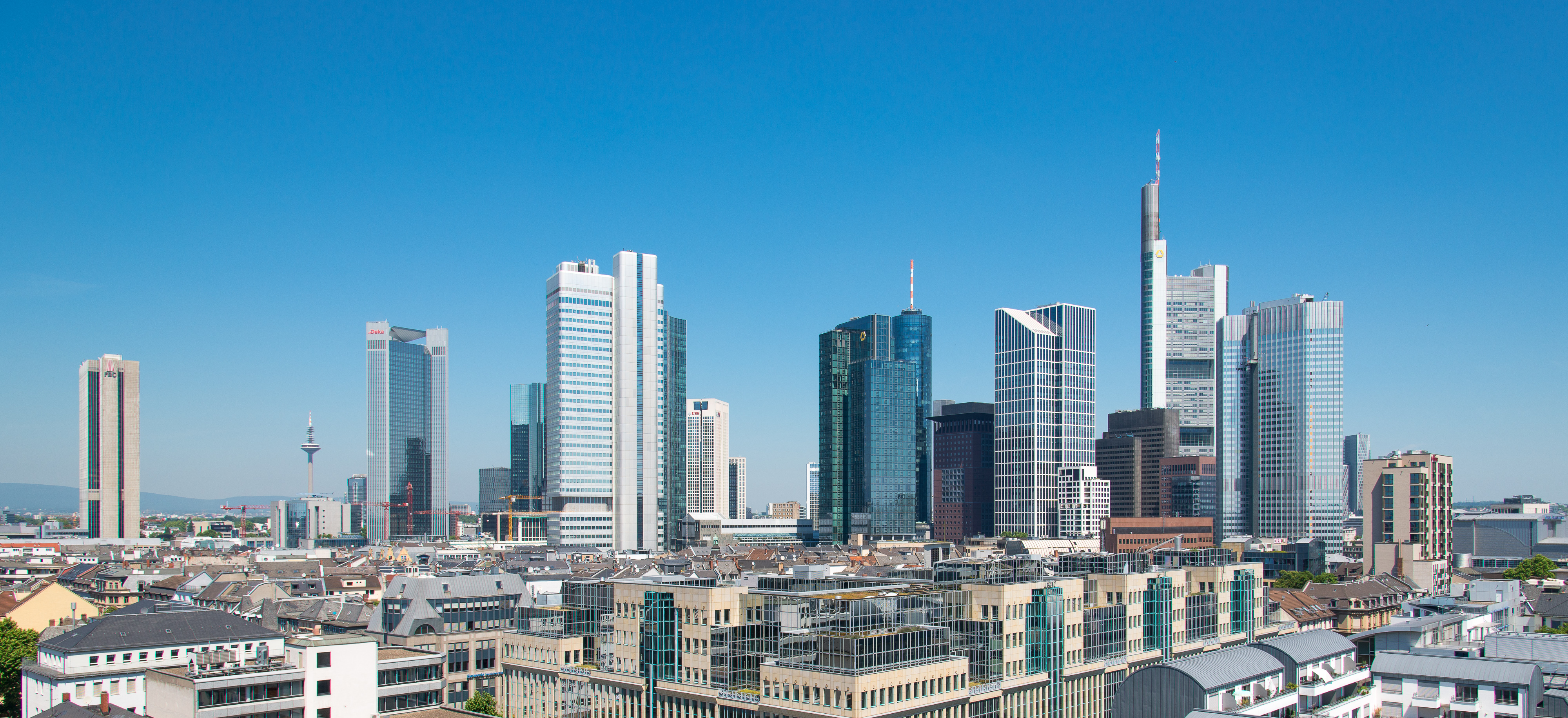 Frankfurt am Main, view from West over most of the central bank district's high-rises.